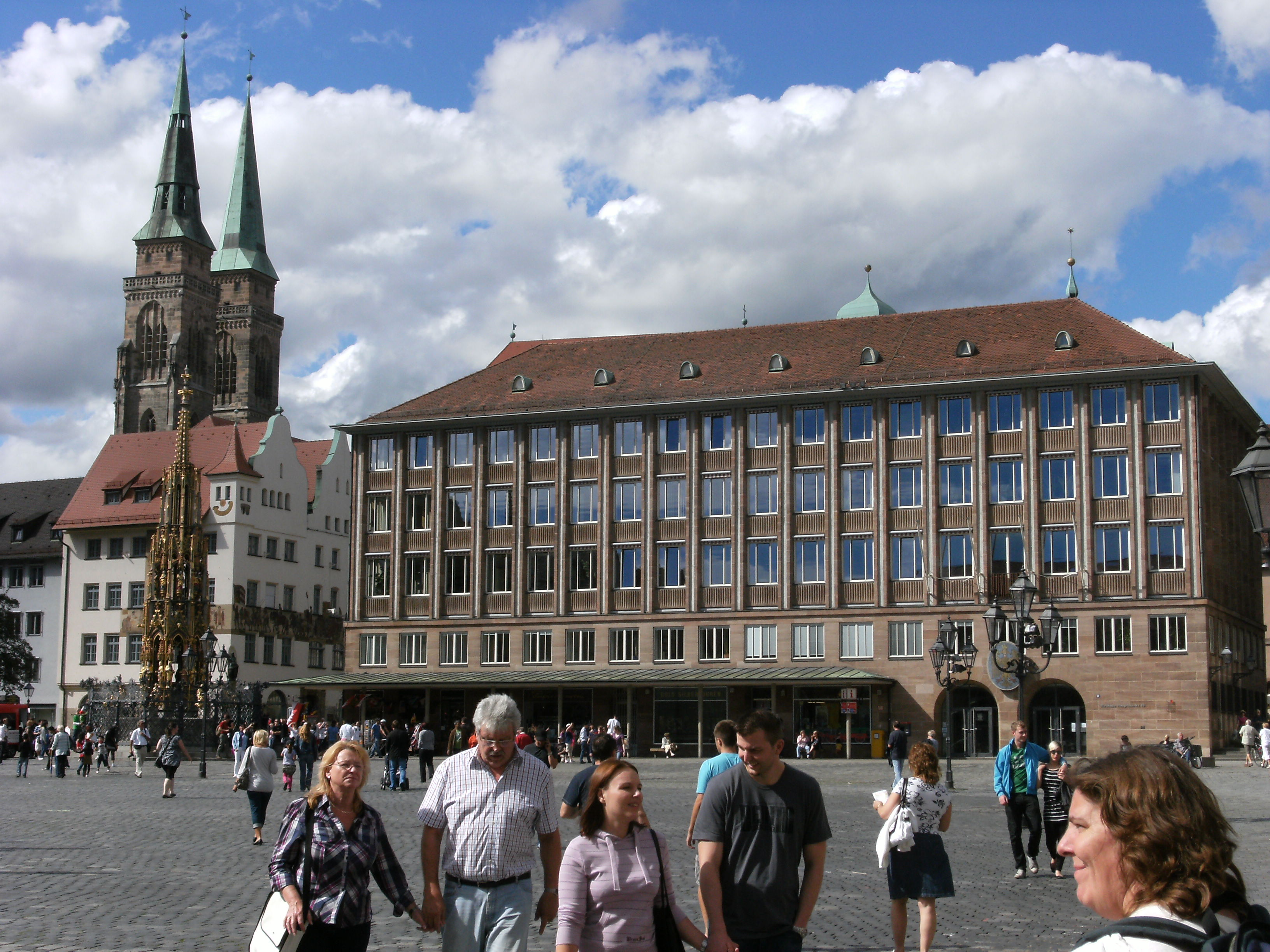 Ämtergebäude (Neues Rathaus), official building in Nürnberg (Hauptmarkt 18). At the left side: Schöner Brunnen, in front of Chamber of Industry and Commerce (IHK), in front of St. Sebald church.